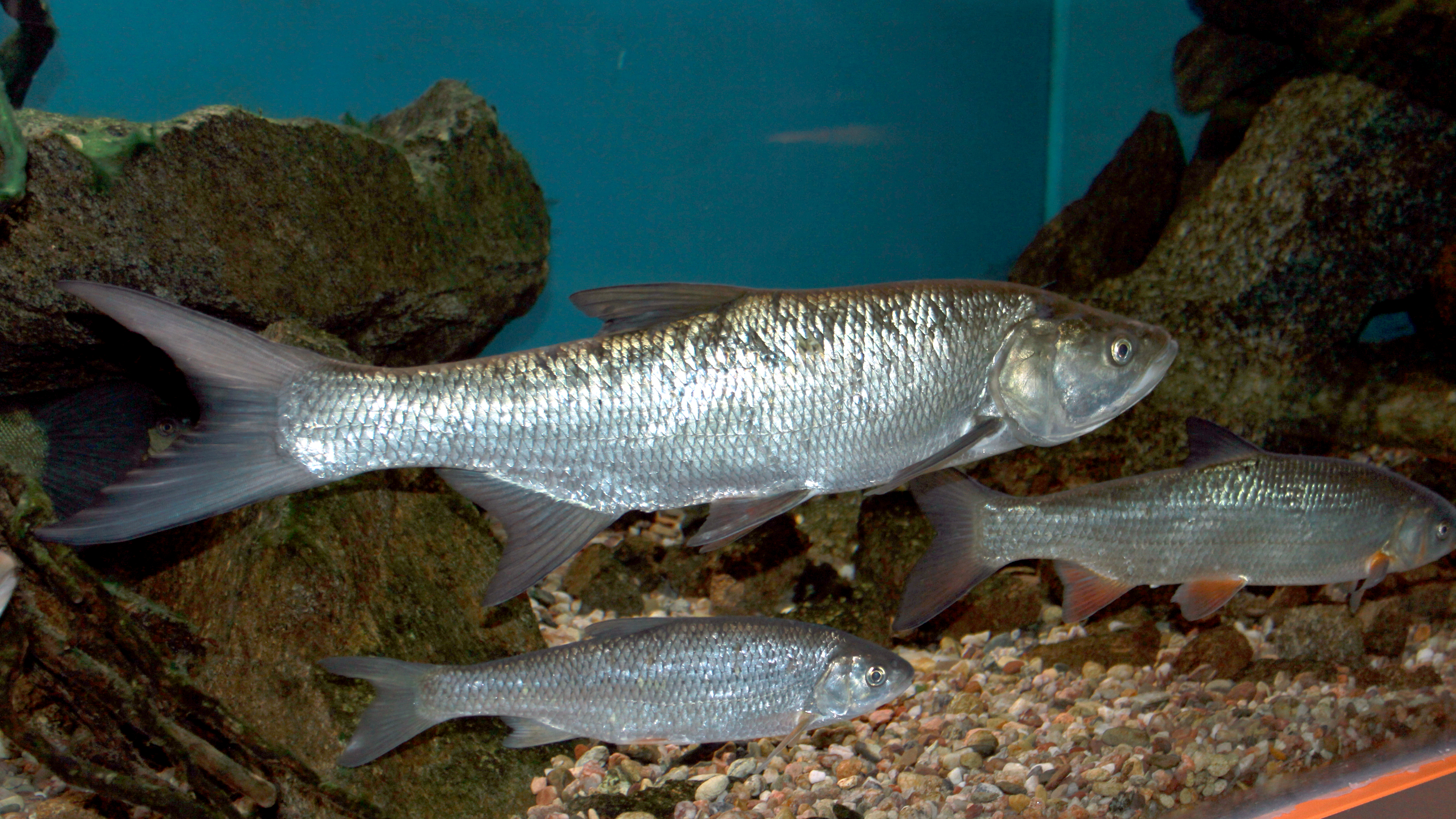 Fish asp on exhibition Subaqueous Vltava, Prague 2011, Czech Republic